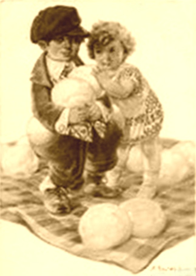 Foto from a 19th century poster about Ametlles d'Arenys